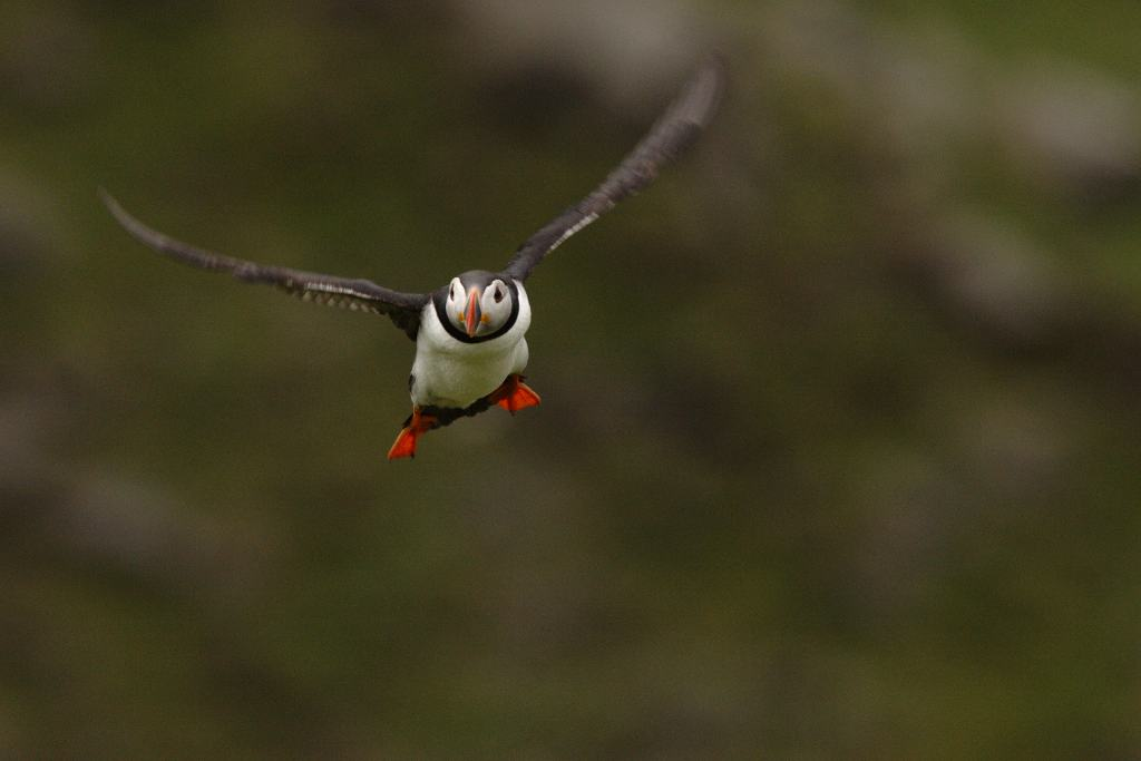 atlantic puffin